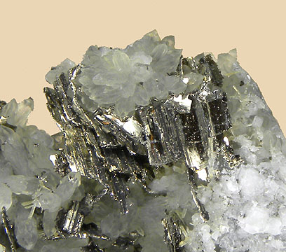 Calaverite Locality: Cresson Mine, Eclipse Gulch, Cripple Creek District, Teller County, Colorado, USA (Locality at ) Size: 2.6 x 2.1 x 1.1 cm. The Cripple Creek District in Colorado was one of the most prolific telluride producing mining districts in the United States. Telluride species from this area are highly sought after by collectors, and it is well justified as some superb examples are known from the various mines in the area. This specimen is loaded with fantastic, sharp, highly splendent, tabular, striated, monoclinic crystals of the rare Gold Telluride, Calaverite which have a bronzy hue and are sitting against frosted grey Quartz crystal matrix. The largest Calaverite crystal measures a full 9 mm in length which is great for the species and the locality. These specimens are very difficult to obtain, and considering that the majority of them were mined over 100 years ago, the only source for specimens is old collections. Ex. Richard Kosnar Collection.